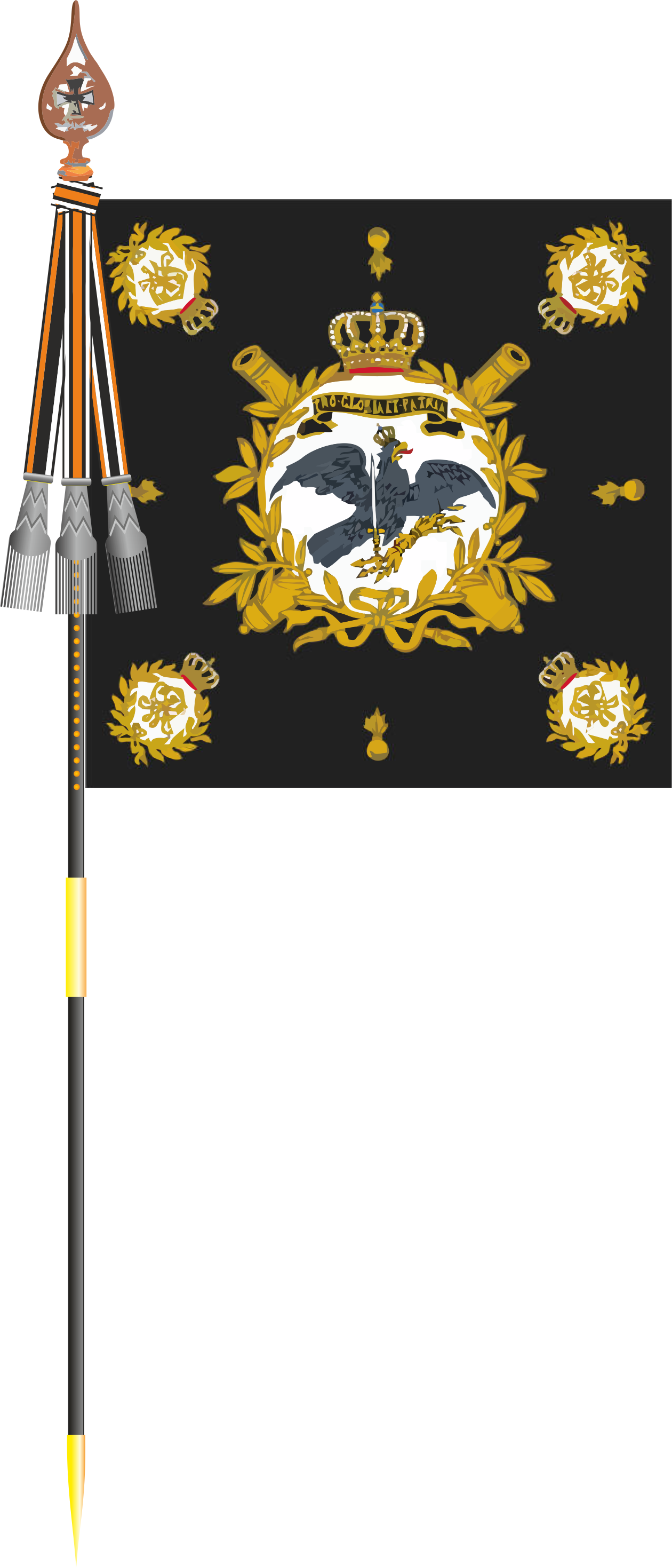 Flag of the royal prussian foot artillery regiment "General-Feldzeugmeister" (Brandenburgisches) No. 3